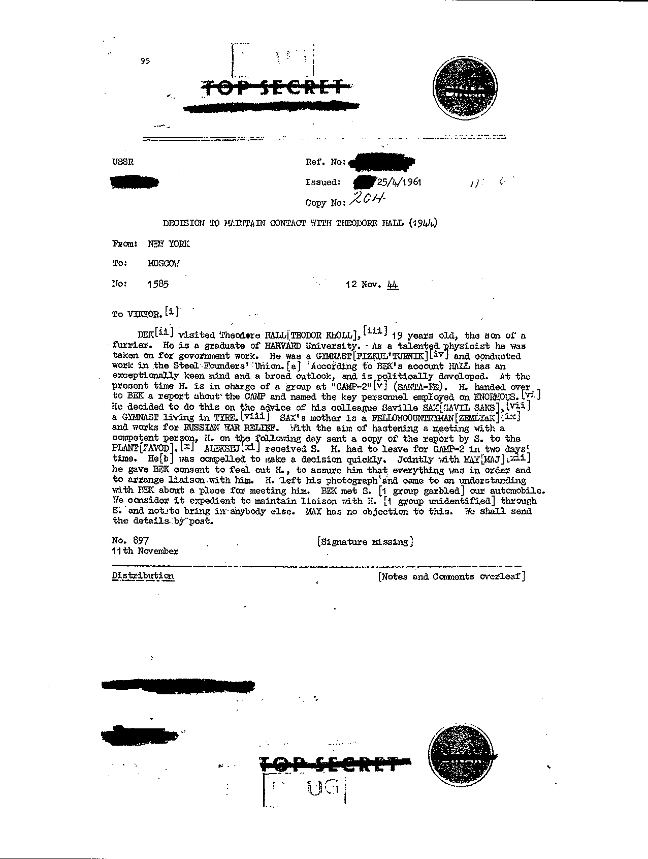 One of the Venona documents on Theodore Hall